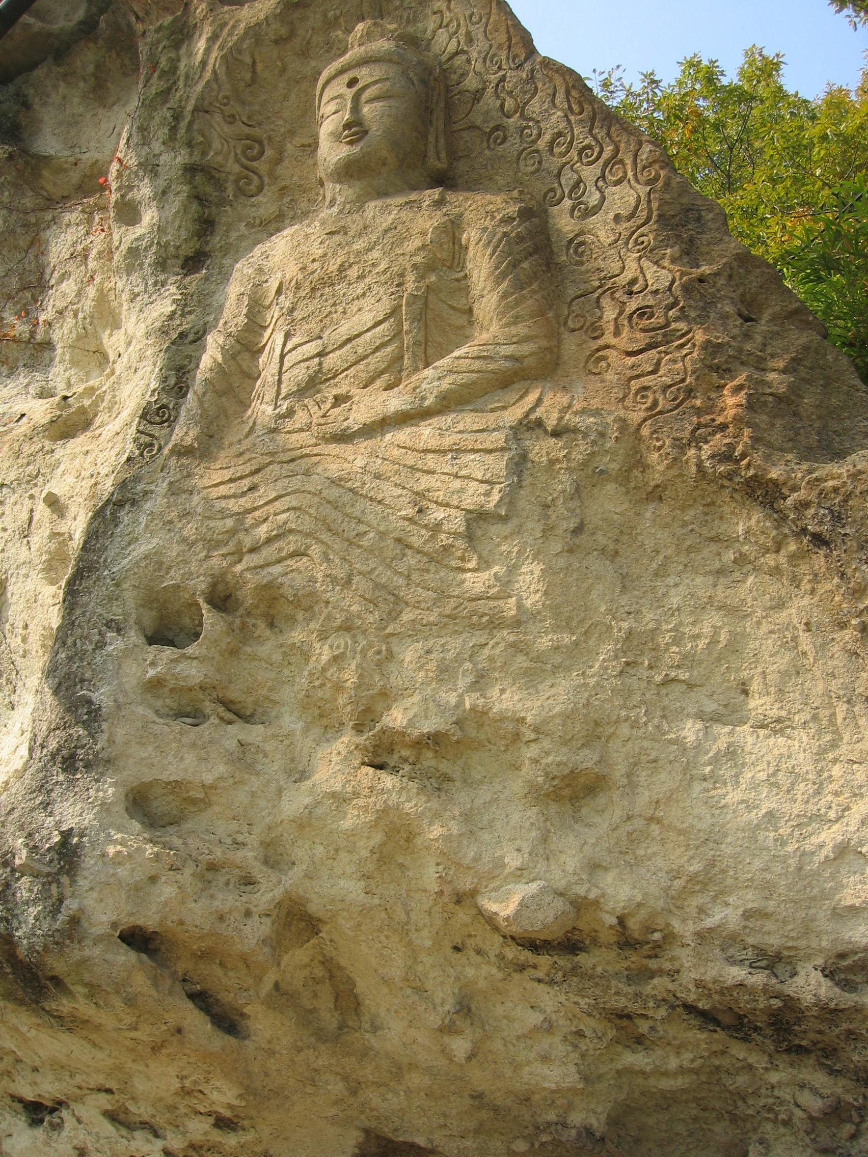 Golgulsa, a Buddhist temple near Gyeongju, South Korea